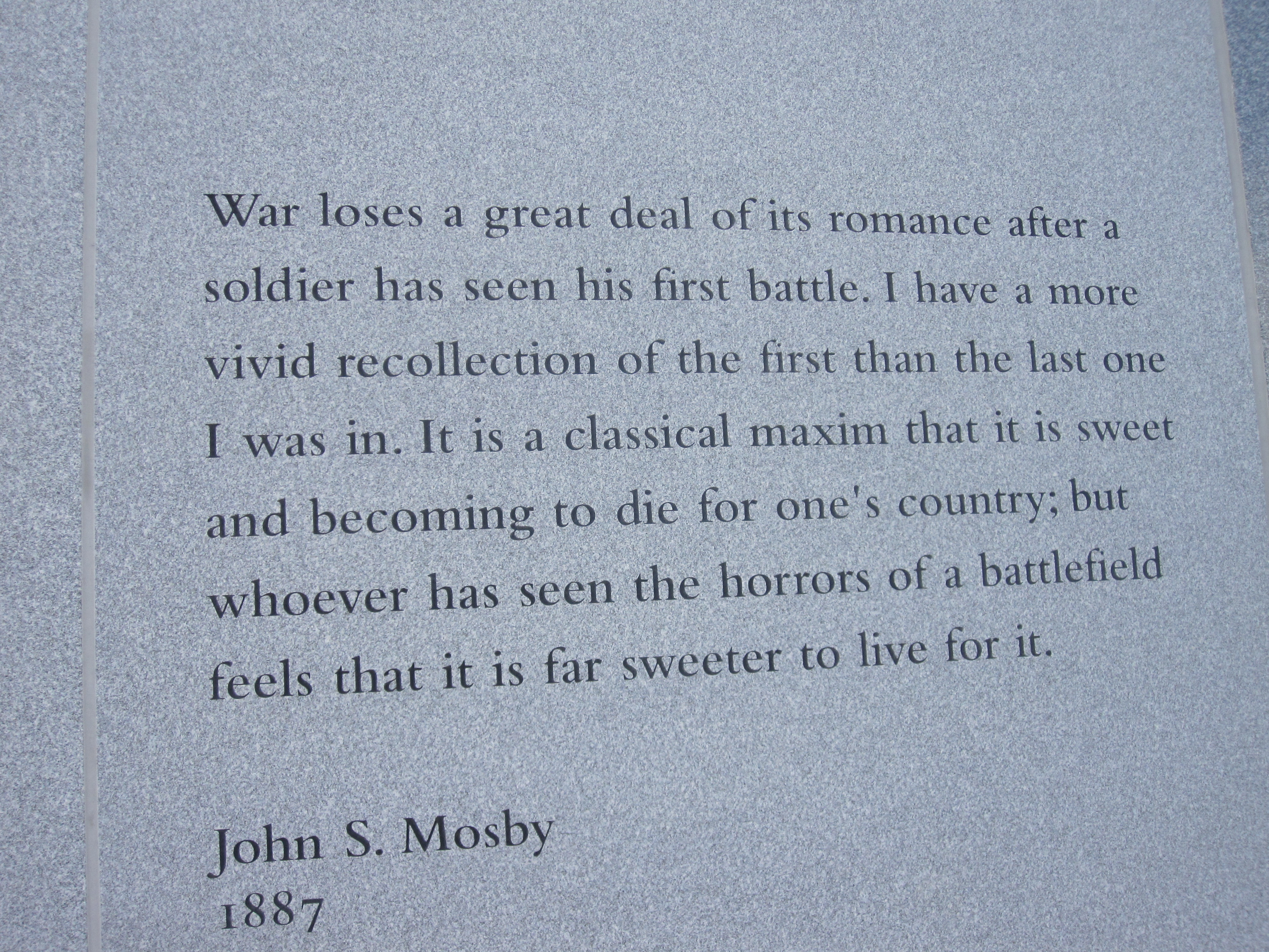 Inscription of quotation by John S. Mosby in Scranton, PA